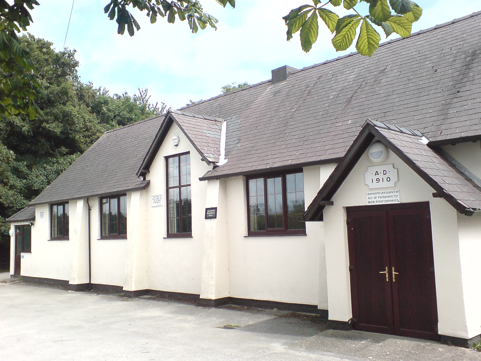 Sychdyn Memorial Hall